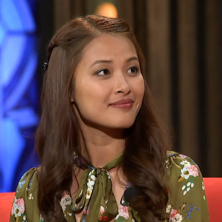 Czech actress of Vietnamese origin Ha Thanh Špetlíková